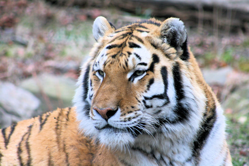 A Bengal Tiger at Bronx Zoo, New York.